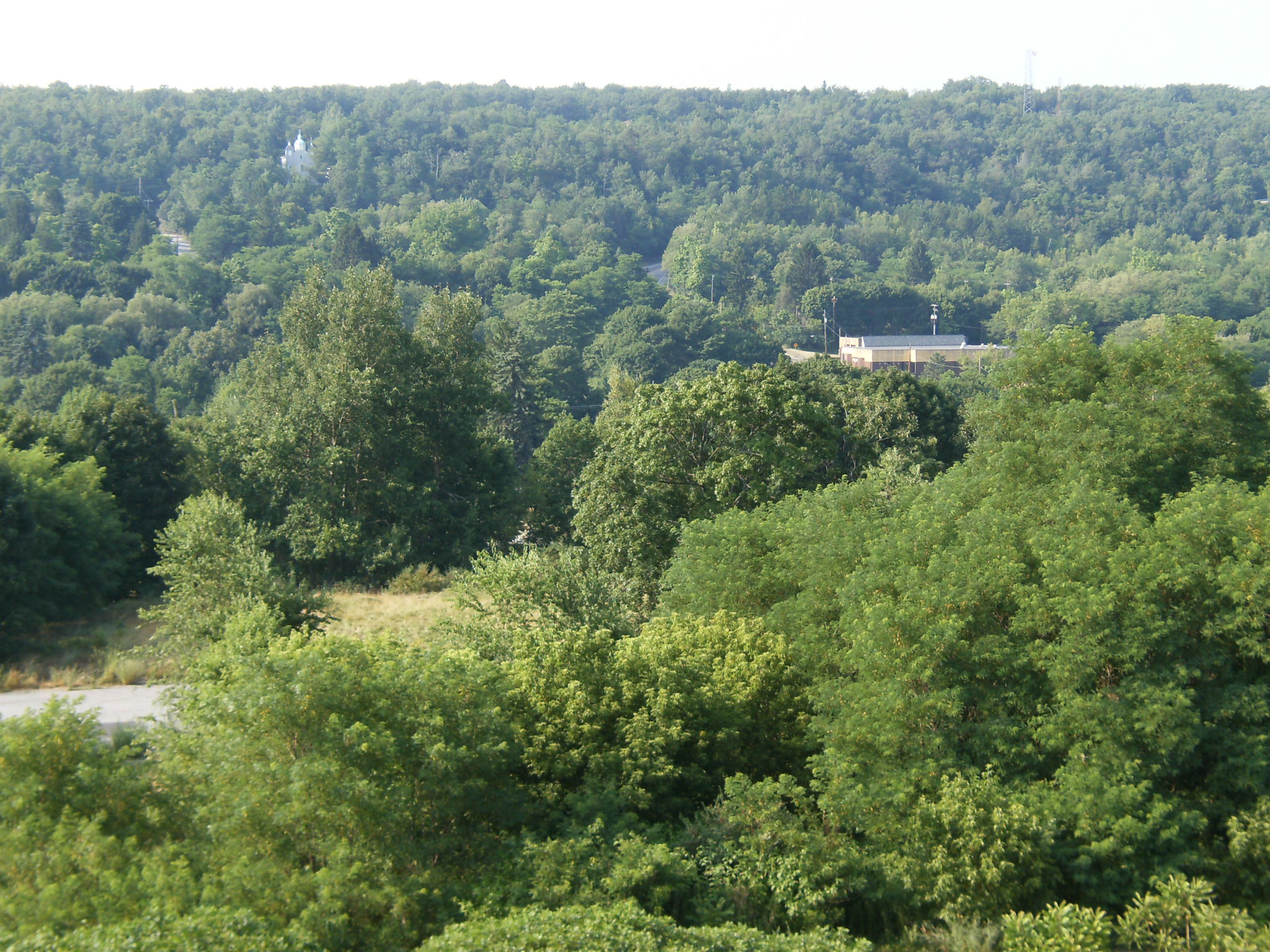 Centralia as seen from the west end of South Street.